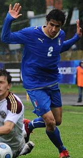 Marco Davide Faraoni in Italy U-19